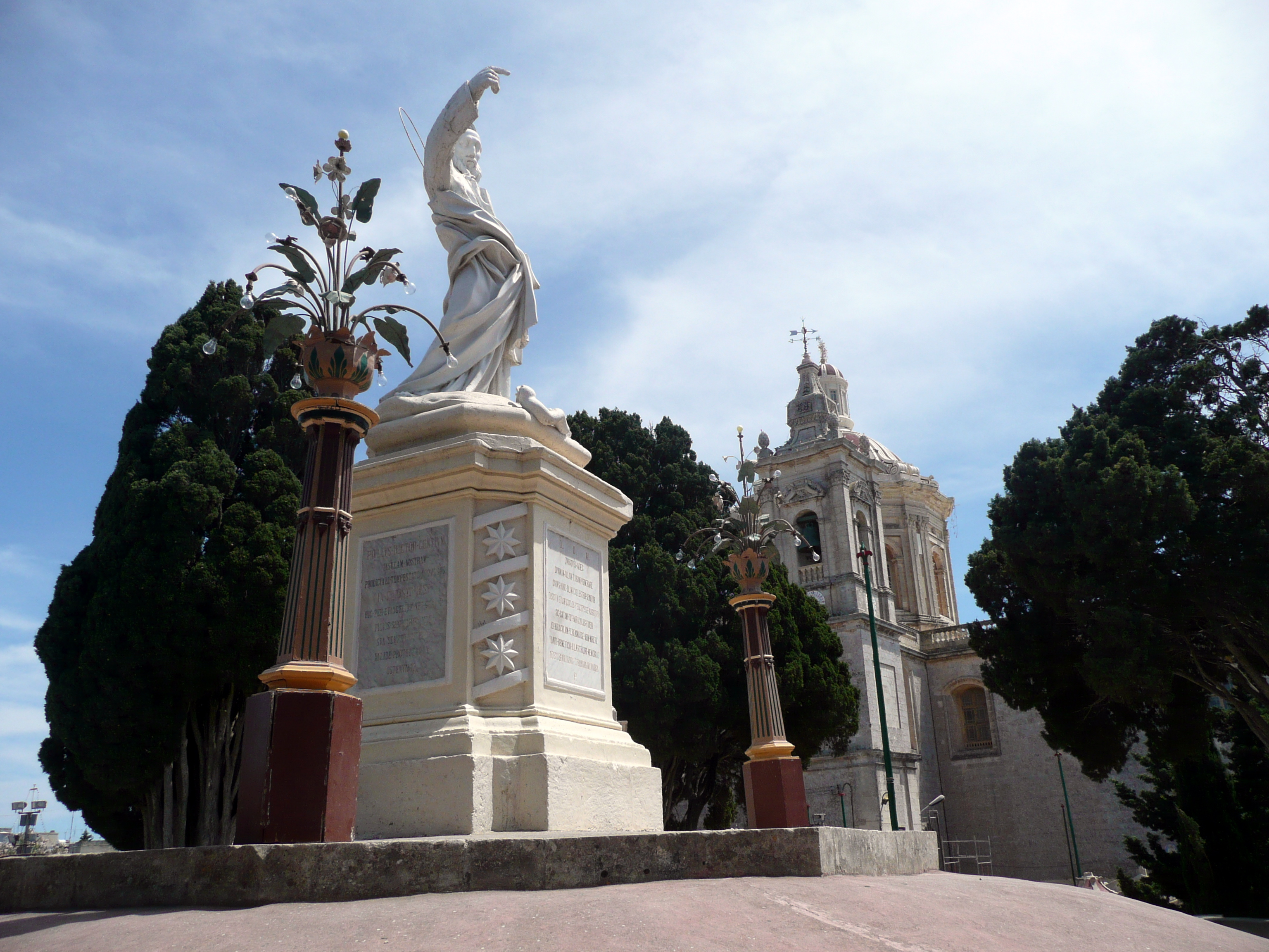 St. Paul's statue, Rabat, Malta